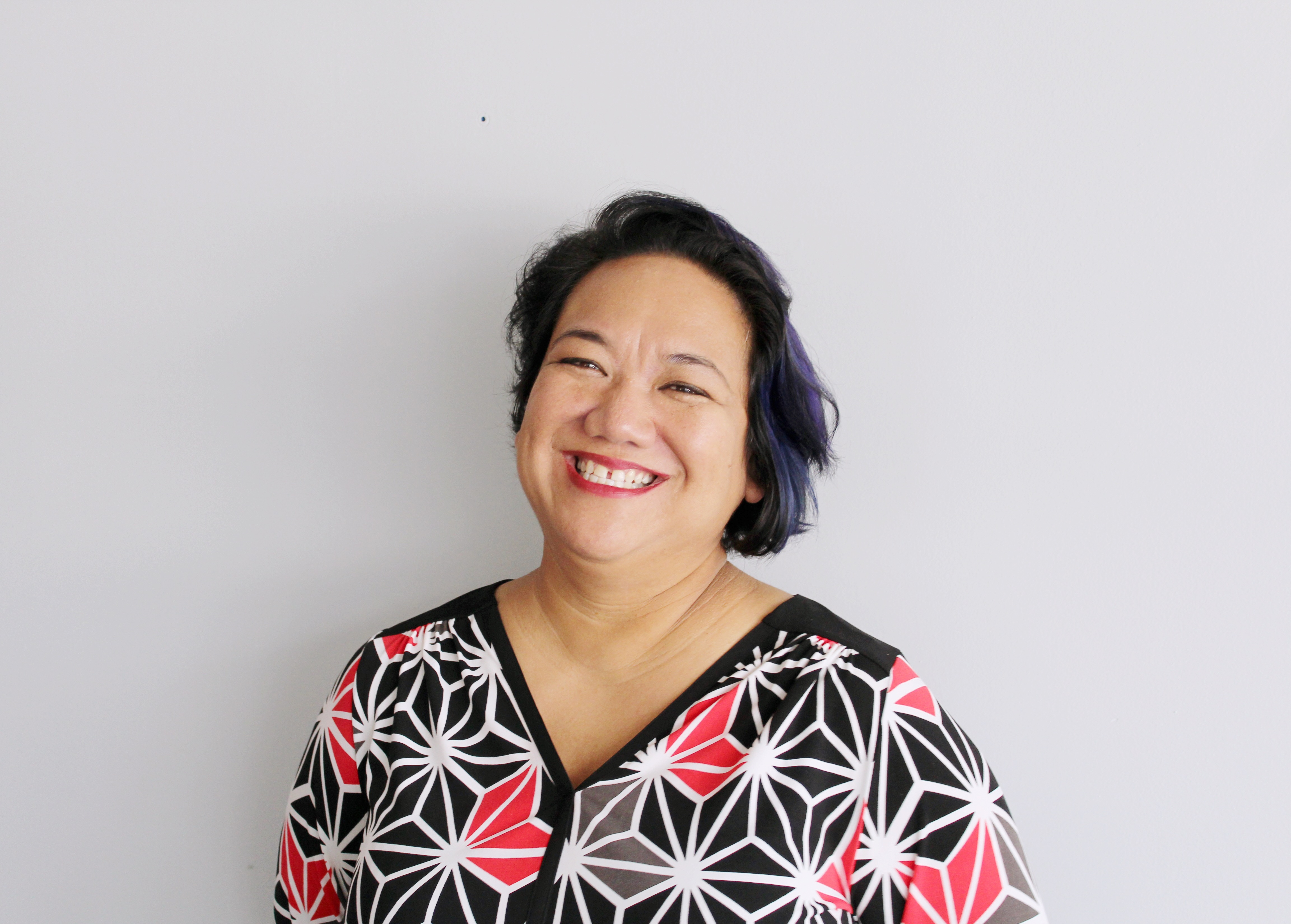 Photograph of Noelani Arista